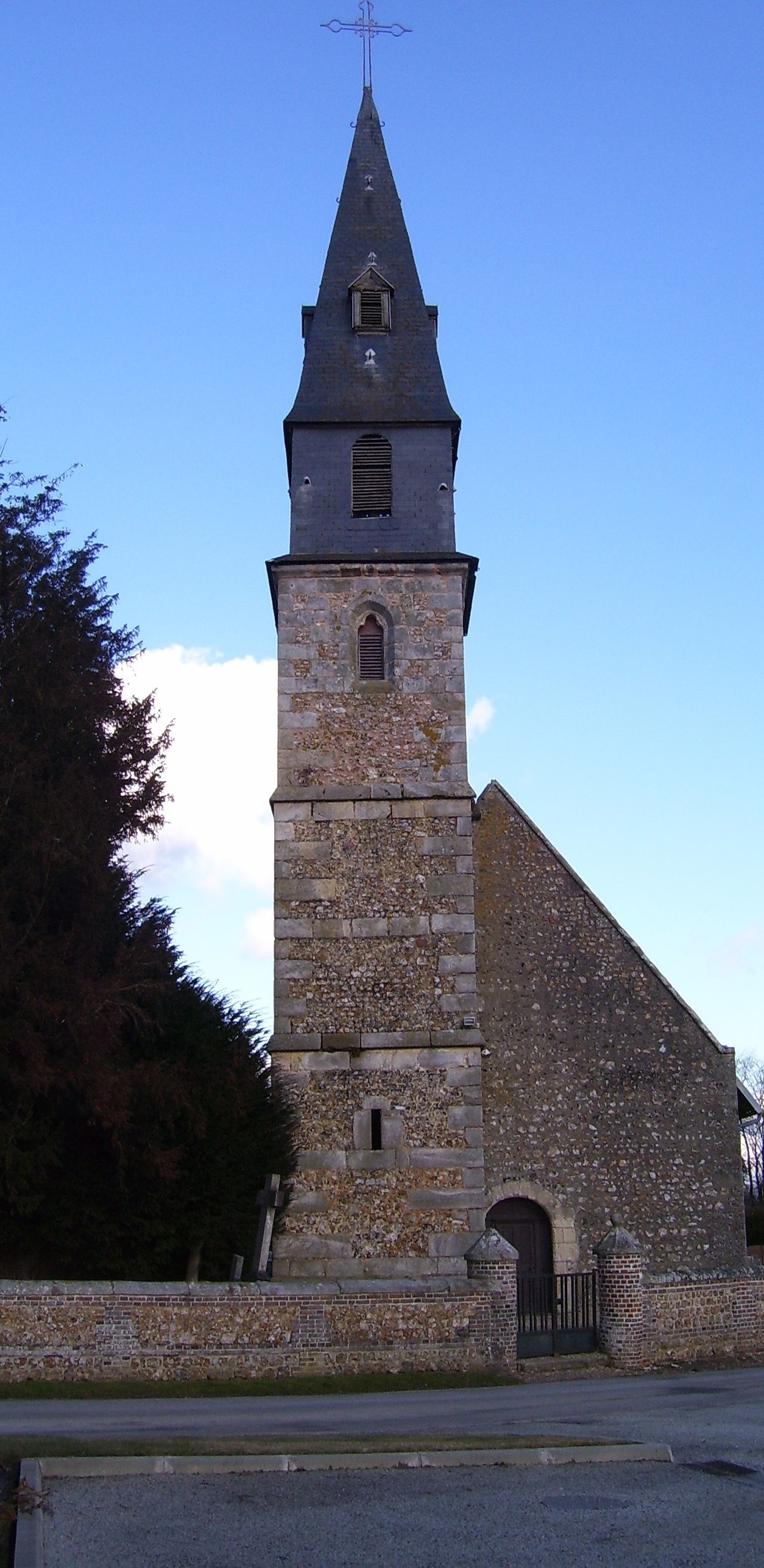 Saint-Pierre-Church in Valailles, in the Eure department in Haute-Normandie in northern France. Nave built in the 11th century.